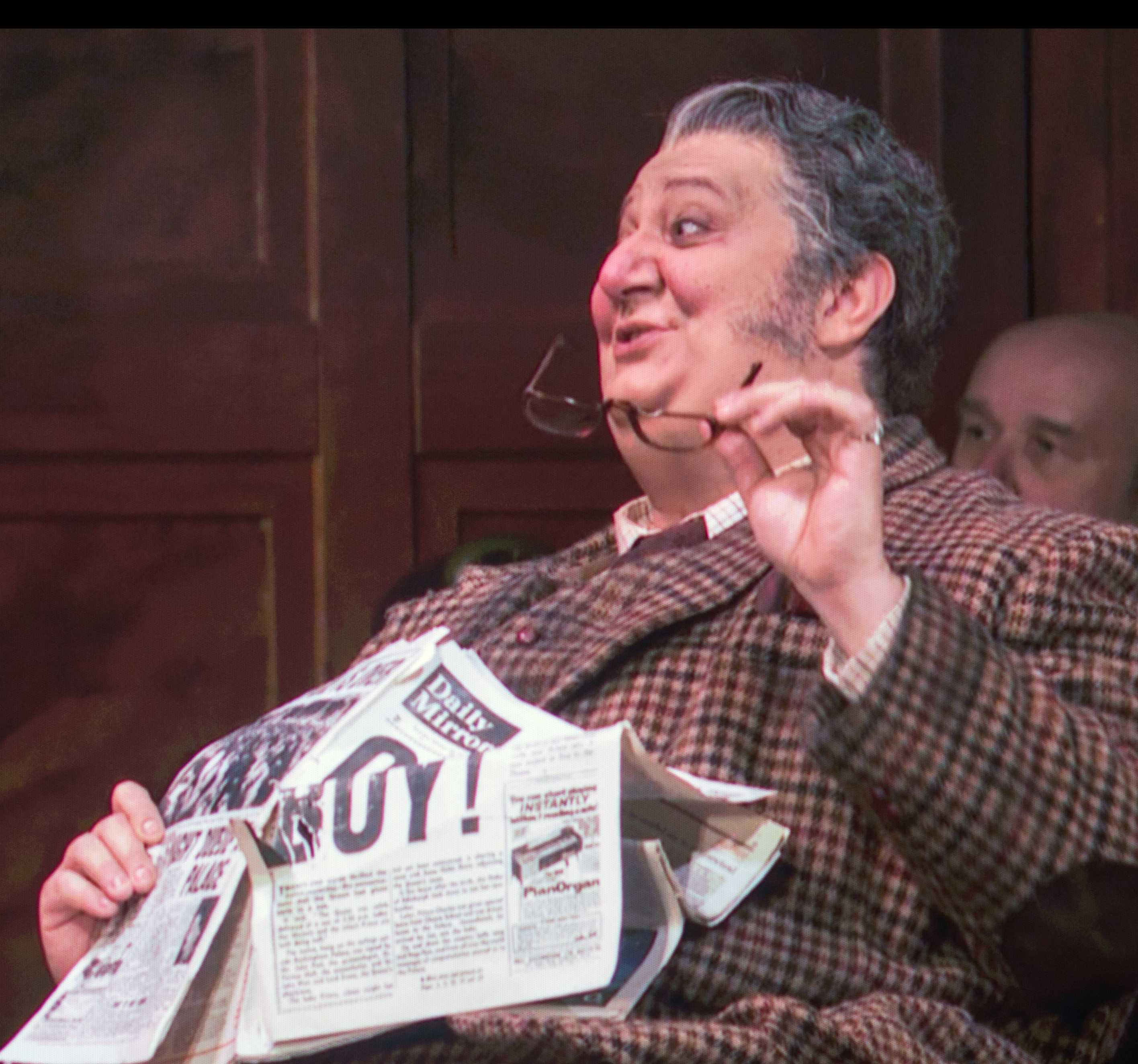 The Metropolitan Opera presents Falstaff, December 2013